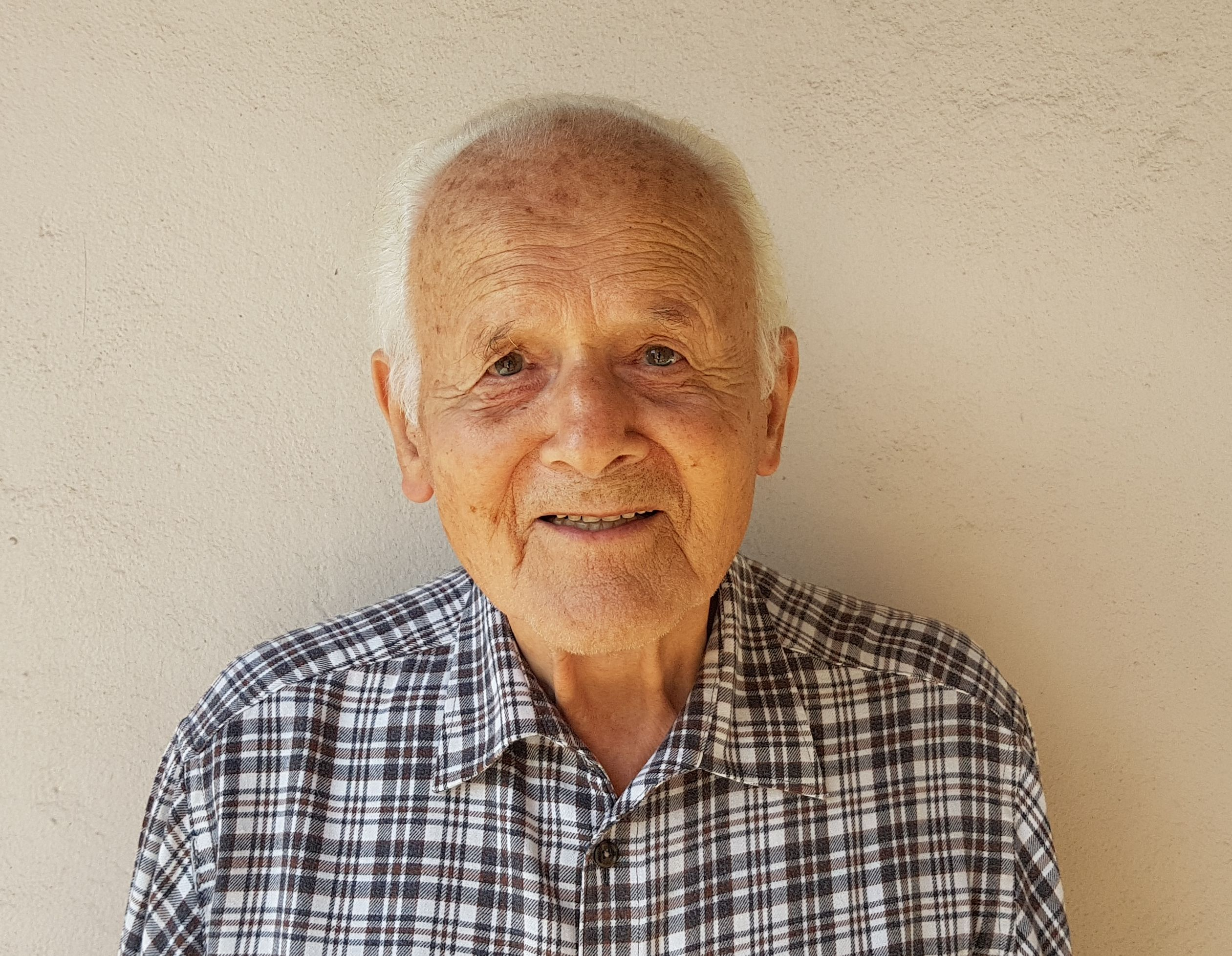 Werner Vogt (* 1931; † 2020), living in Hard, Vorarlberg, Austria.